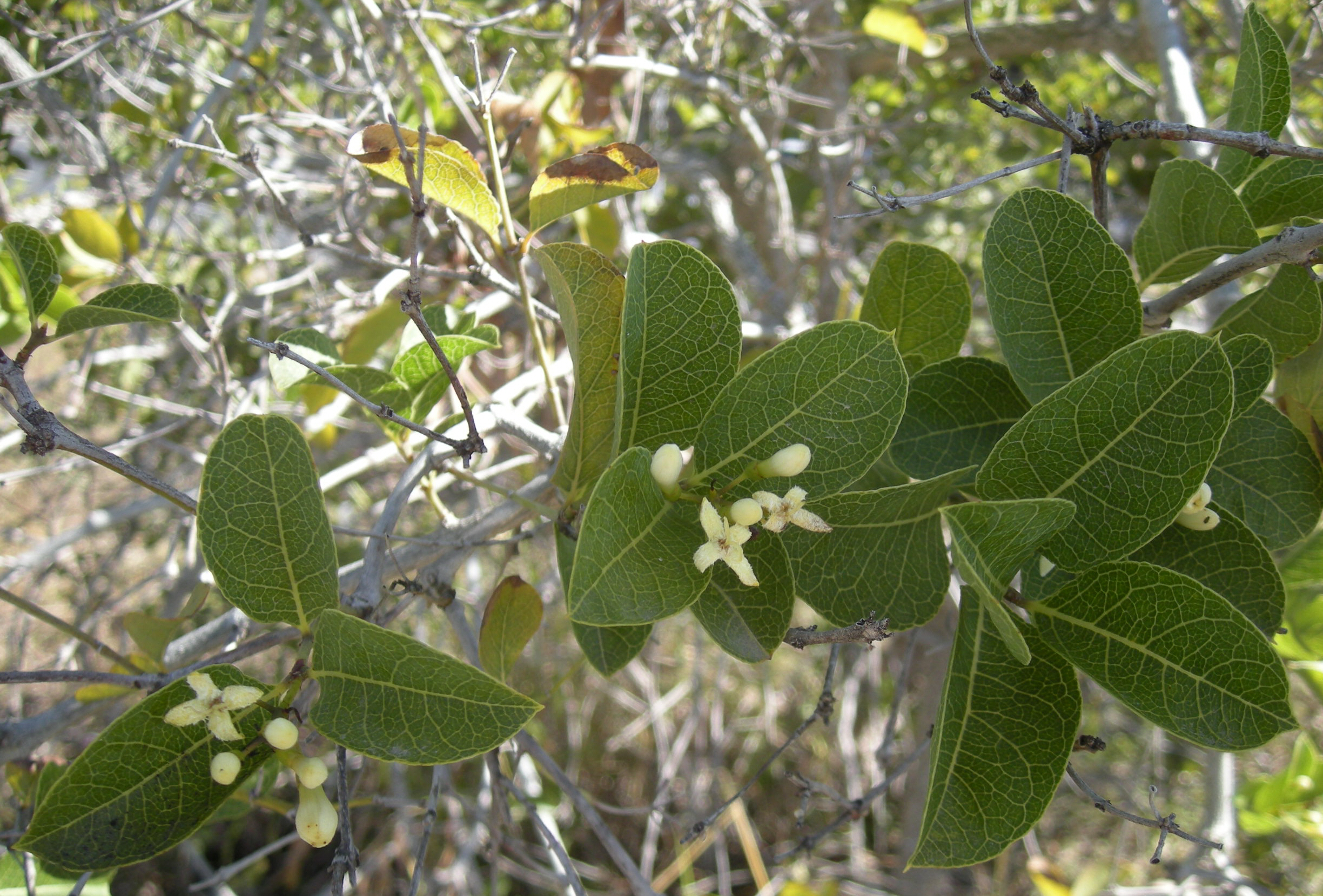 Pogonolobus reticulatus (Coelospermum reticulatum) foliage and flowers, Mount Archer National Park, Rockhampton